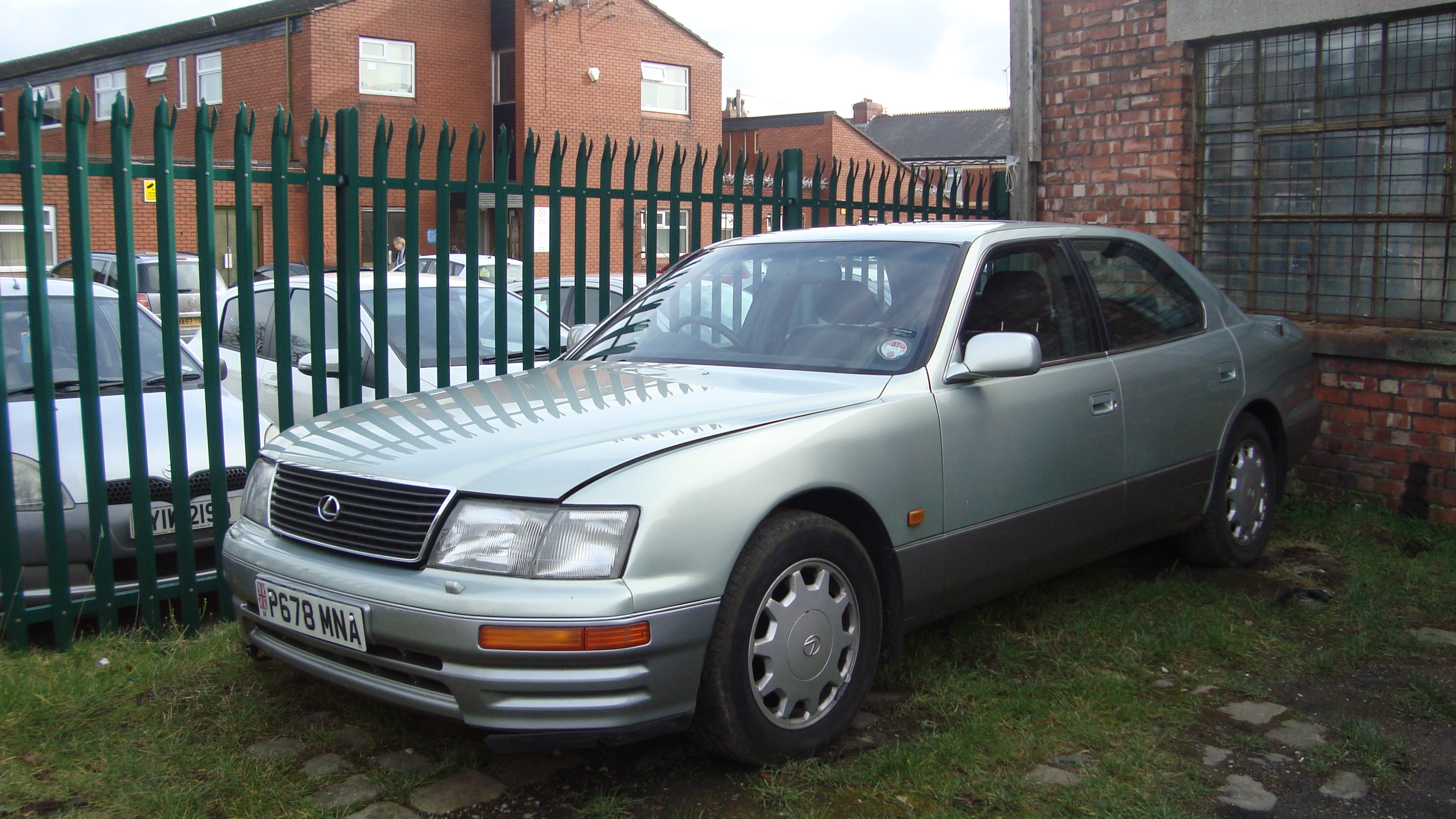 Try to photograph as many of these as possible because I've always liked them and I know they are very popular with banger racers at the minute